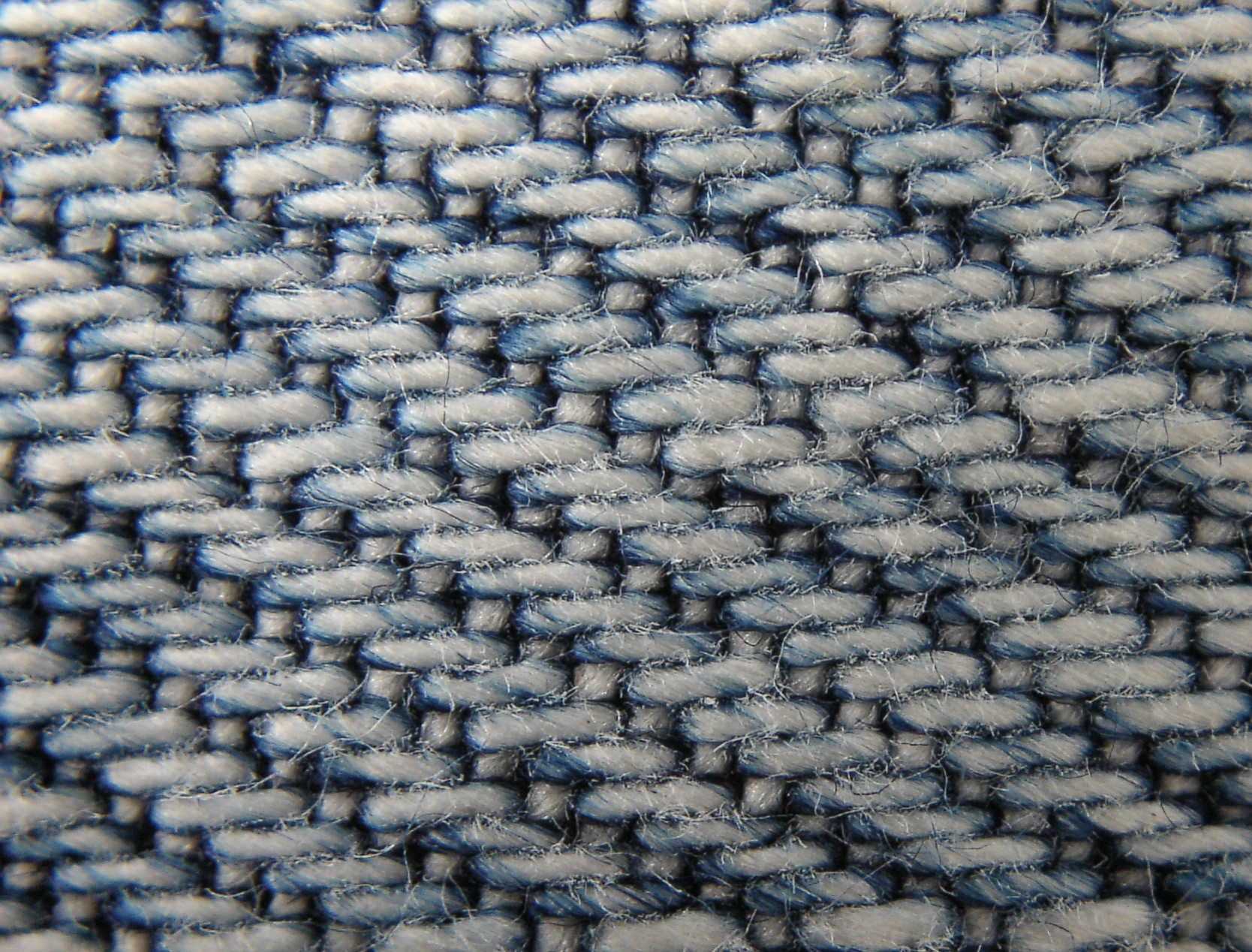 Close-up of denim